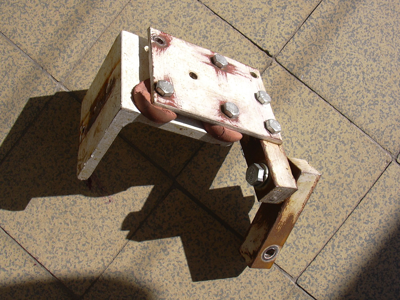 Ronja holder. Mechanism of rough and fine adjustment can be seen. The bolted joints function as rough adjustment. Three bolts preloaded with rubber blocks facilitate fine adjustment of the optical head direction. Their gear ratio is 1:300. See also gallery at